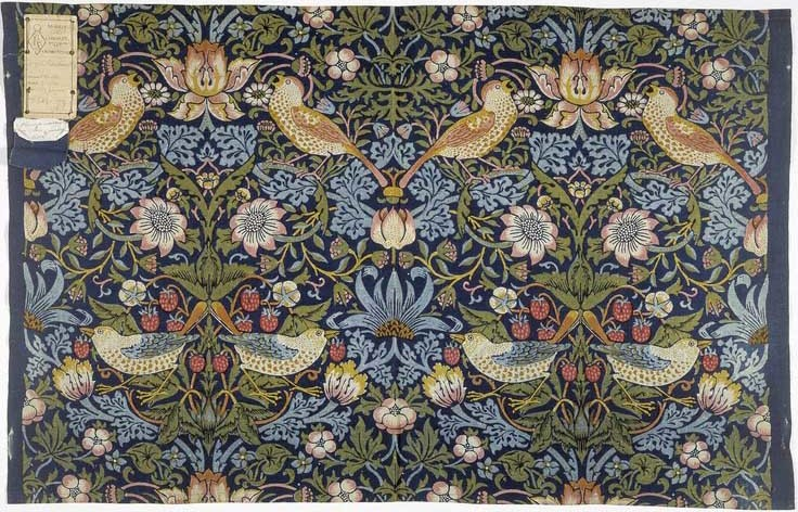 Strawberry Thief, 1883, William Morris (1834-1896) V&A Museum no. T.586-1919 Techniques - Indigo-discharged and block-printed cotton Place - London, England Dimensions - Height 60.5 cm, Width 95.2 cm